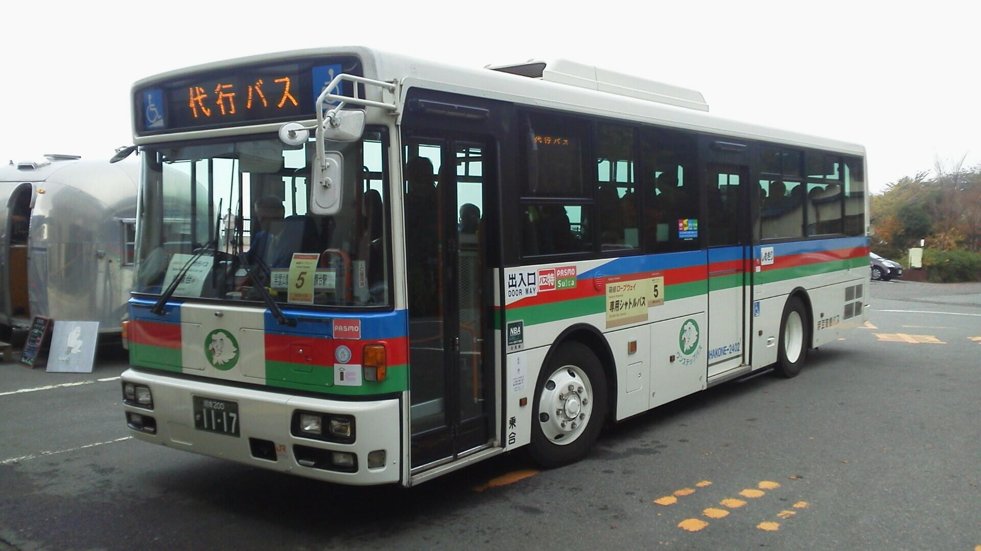 Hakone Ropeway daiko-bus at Sounzan Station